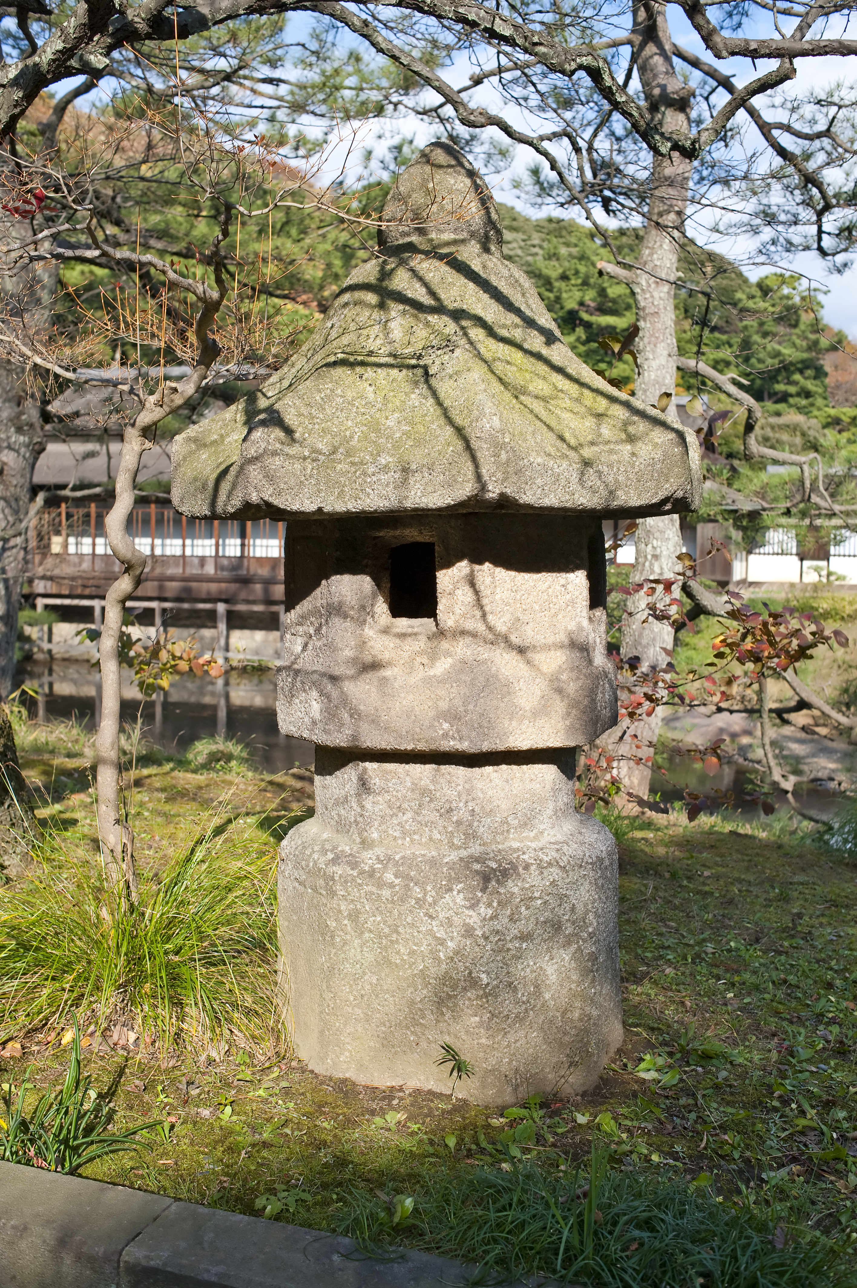 A ikekomi-dōrō, that is, a stone lantern with no pedestal, at Sankei-en, Yokohama